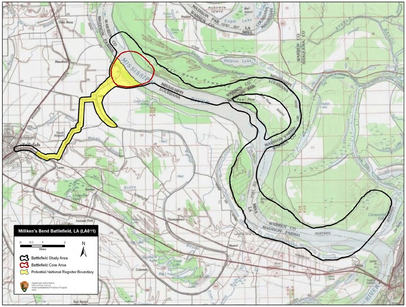 Map of battlefield core and study areas. The Study Area was revised to include the African Brigade and 10th Illinois Cavalry’s route of reconnaissance toward and retirement from Tullulah. Also included in the revision is the historic trace of the Mississippi River, encompassing the route used by the USS Choctaw and the USS Lexington when coming to the aid of Federal forces at Milliken’s Bend.